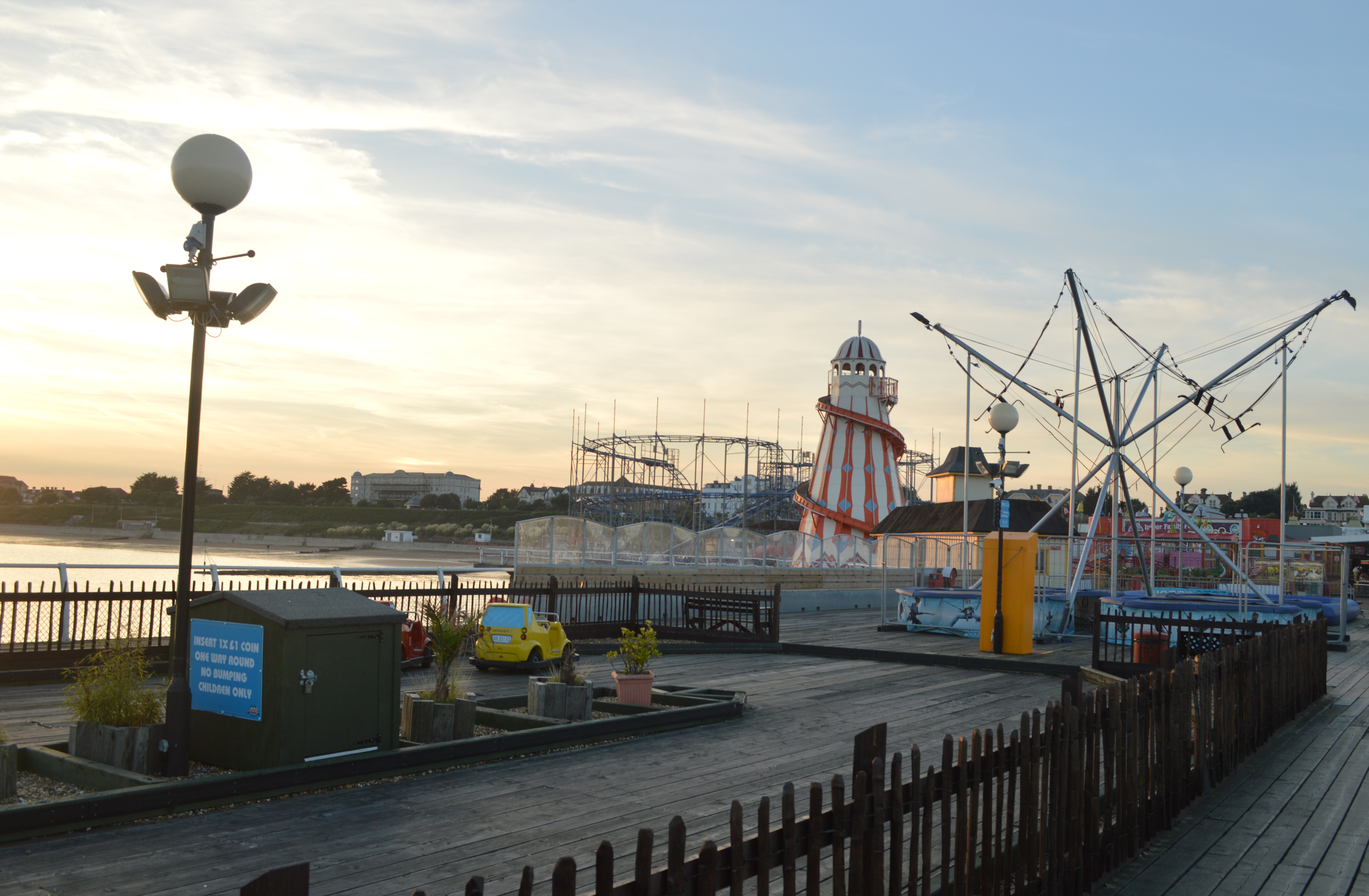 Clacton Pier, outdoor amusements and rides in early evening. The 75-year-old helter-skelter collapsed in a storm later in the month on 28 October 2013.[1]